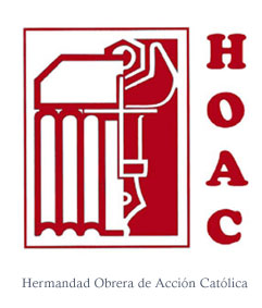 hoac hoac